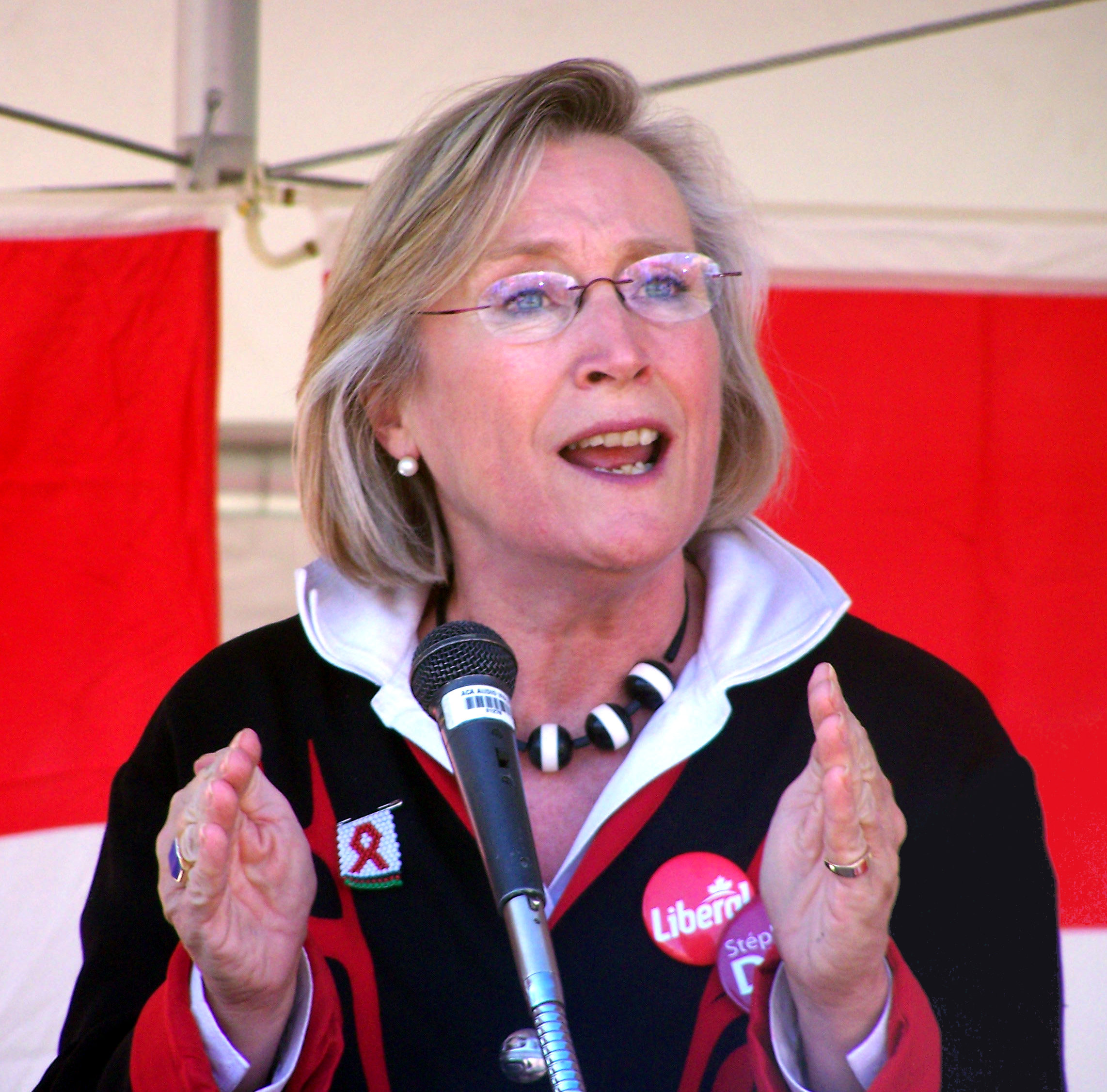 This is Carolyn Bennett, Liberal MP for St. Paul's in Toronto. This picture was taken at Castleridge Plaza in Calgary, Alberta, Canada. The Liberal Party of Candidate introduced its nominated candidates in Southern Alberta who were running for the 2008 federal election.